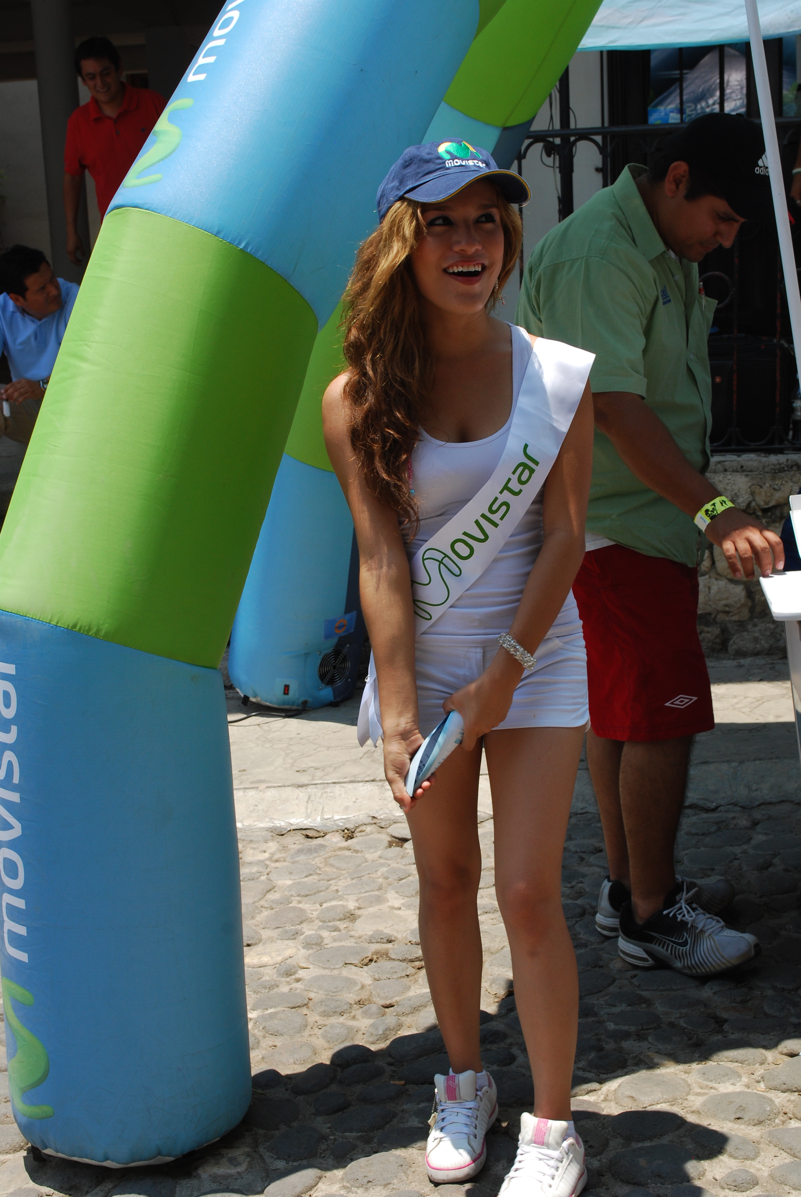 Woman promoting Movistar in Chiapa de Corzo, Chiapas, Mexico